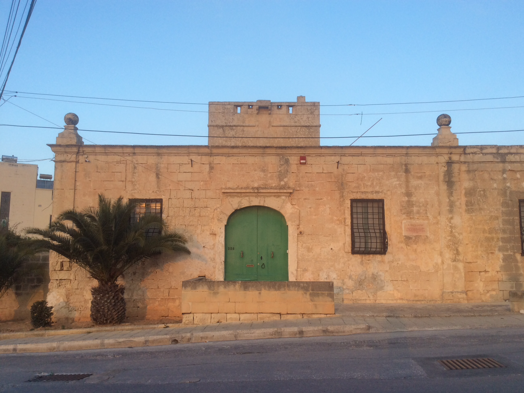 Captain House and Tower, Naxxar